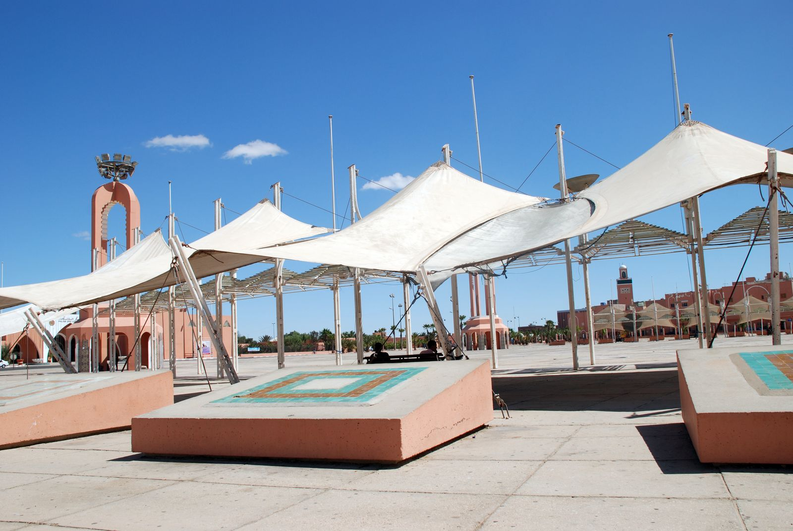 Sunshades at Place du Mechouar — in El Aaiún-Laayoune, Western Sahara.